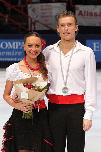 Ekaterina Riazanova and Ilia Tkachenko at the 2010 Trophy Eric Bompard.